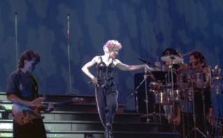 Wembley Stadium Londen Engeland juli '87